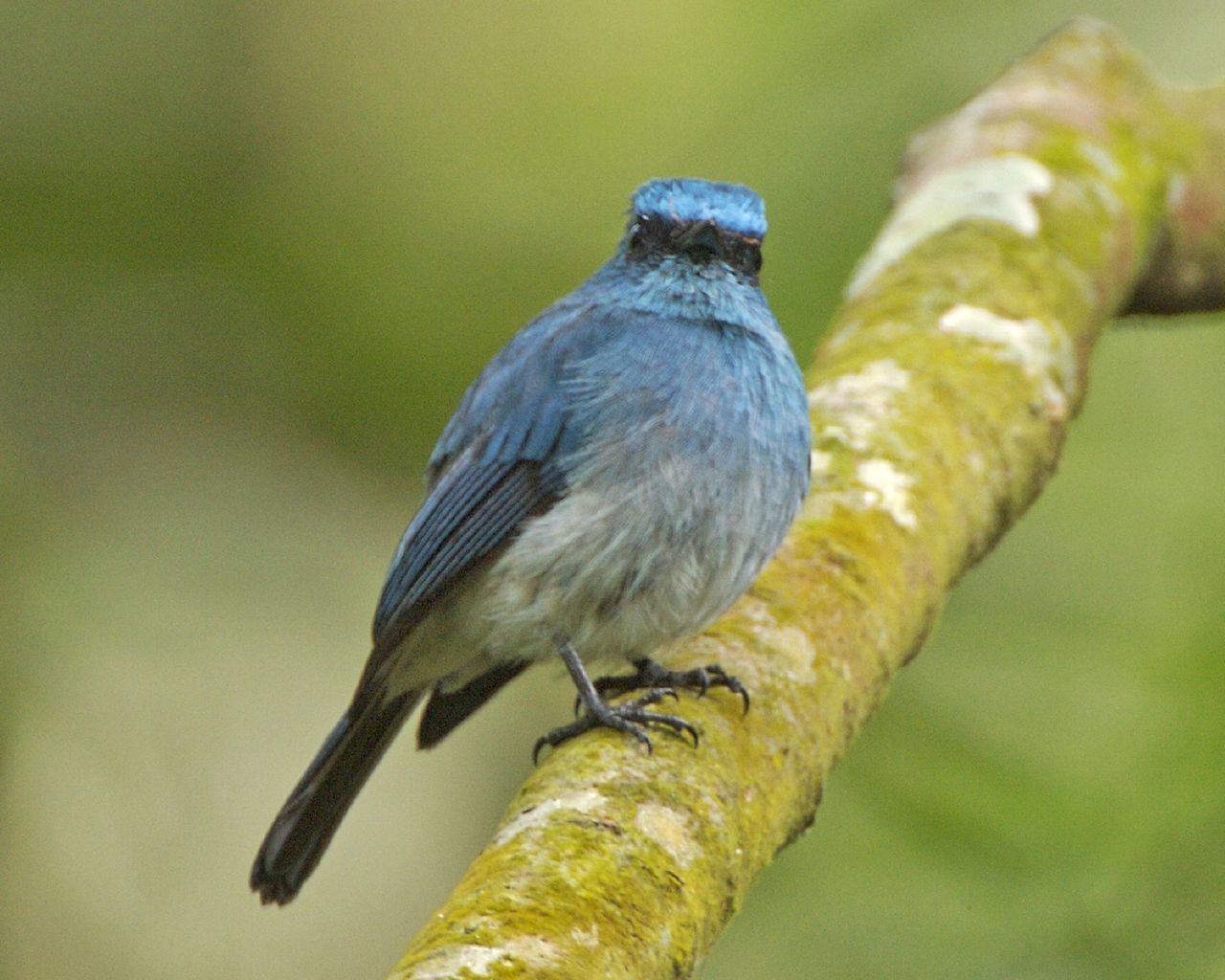 Indigo Flycatcher (Eumyias indigo) 10th. August 2007 Location : Gunong Gede, Java, Indonesia _Q0S8372